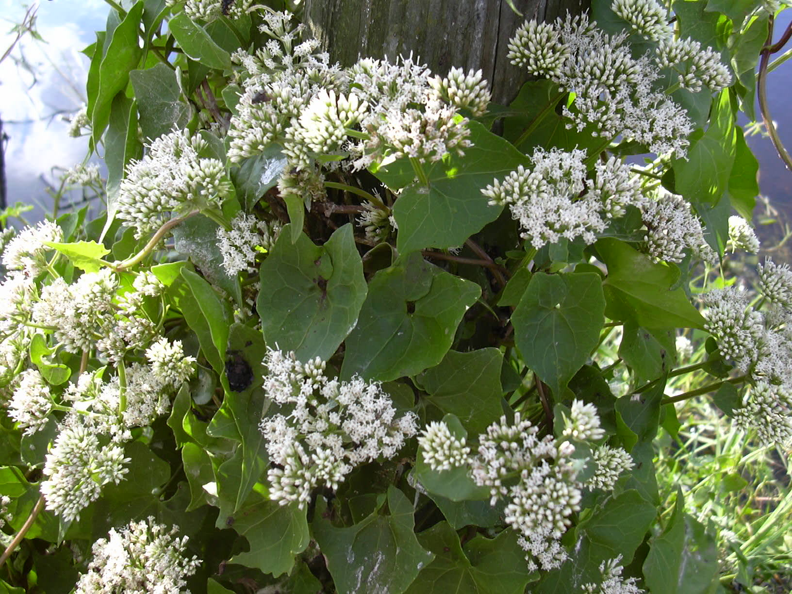 Mikania scandens (habit). Location: Florida, Alligator Alley